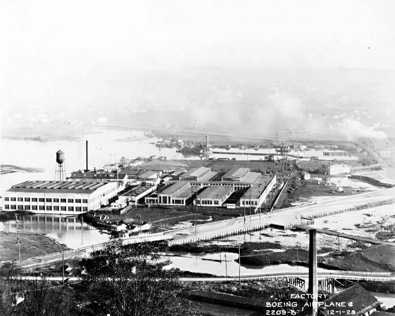 Boeing Airplane Plant on the east side of the Duwamish River, Seattle, Washington, December 1, 1928 Photographer: Unknown Subjects (LCSH): Boeing Aircraft Company Aircraft industry--Washington (State)--Seattle Factories--Washington (State)--Seattle Digital Collection: Transportation Collection Item Number: TRA0055 Persistent URL: Visit Special Collections page for information on ordering a copy. University of Washington Libraries. Digital Collections